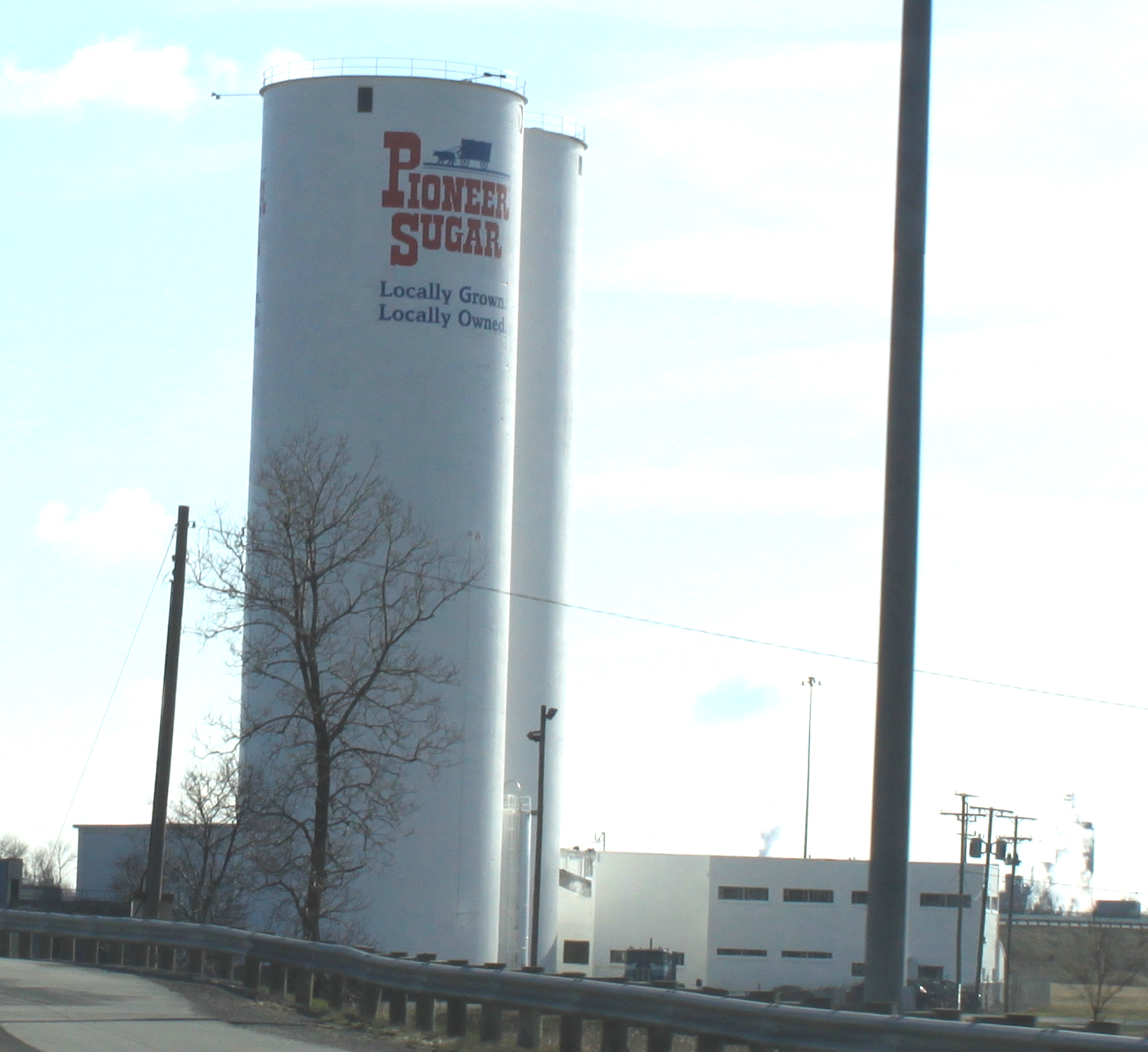 Michigan Sugar Company Findlay sugar terminal, 1343 Greenwood Street, Findlay, Ohio